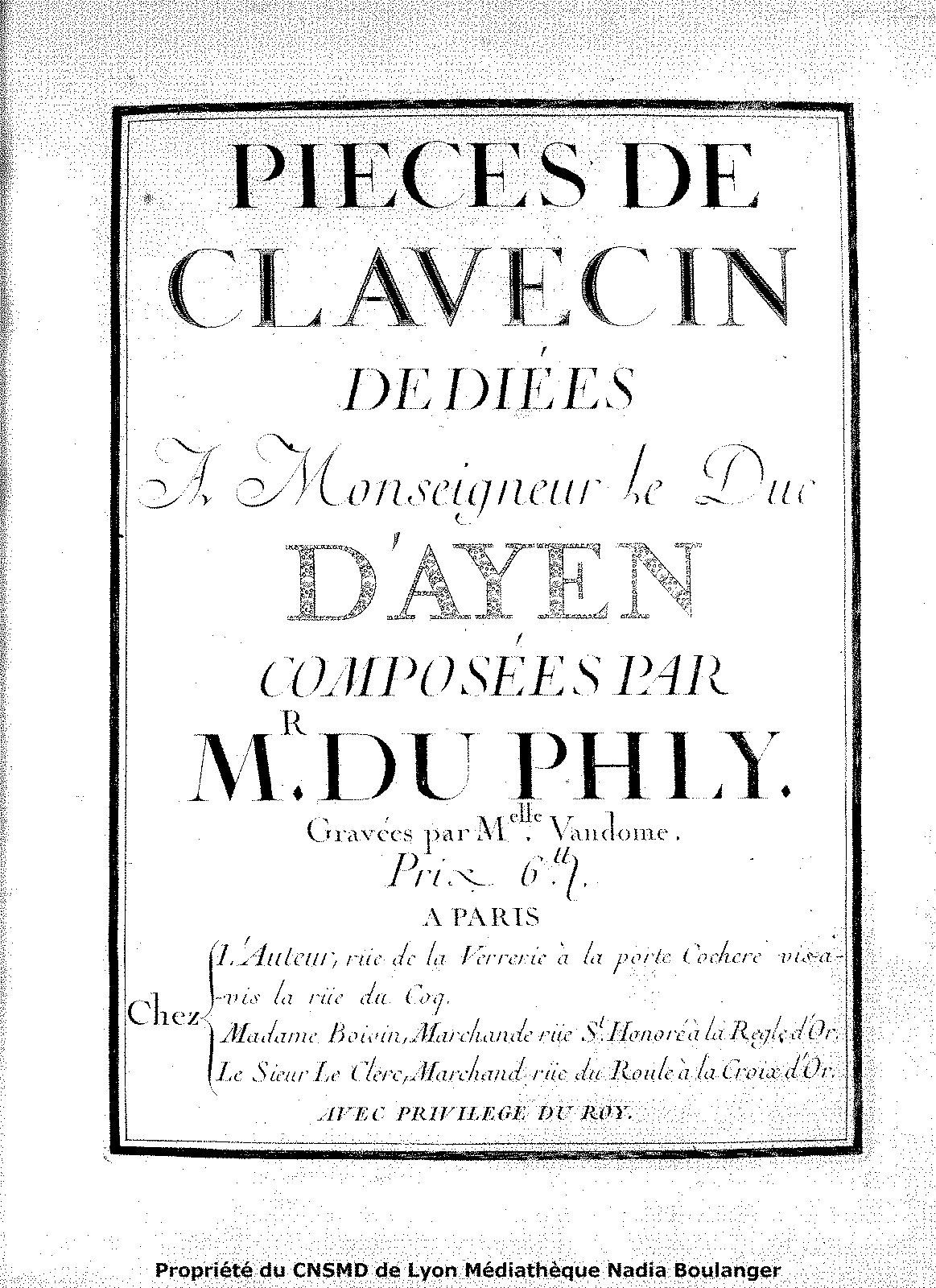 Jacques Duphly: Pièces de clavecin I.